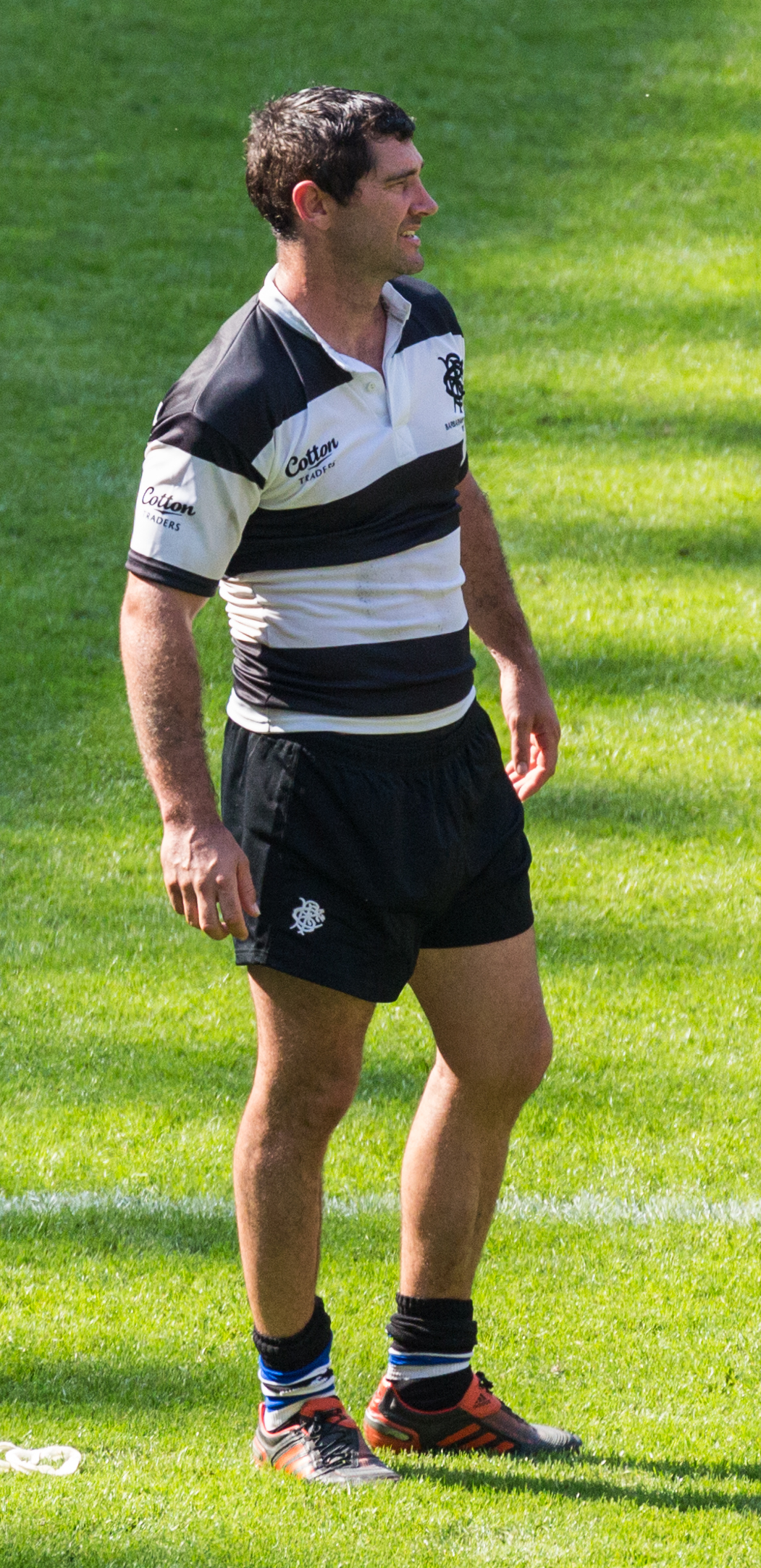 Stephen Donald, New Zealand rugby union player, representing the Barbarians in a friendly match against England at Twickenham Stadium.